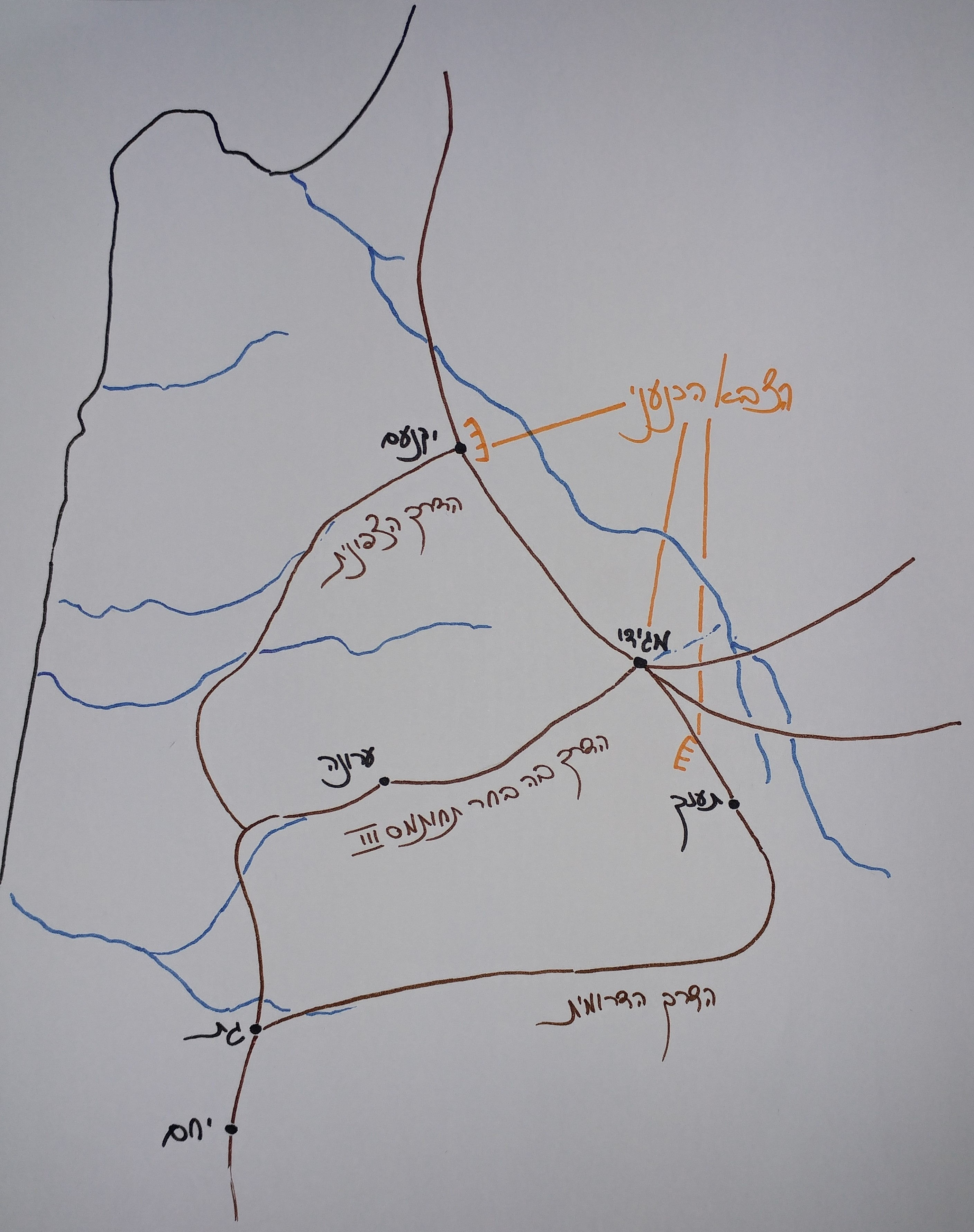 Three routes that were available for Thutmose III to reach Megiddo: 1. The northern route via Wadi Milek. 2. The southern route via Dothan valley. 3. The third and the direct route via Wadi Ara. Map source: Yohanan Aharoni, Carta's Atlas of the Bible. Carta, Jerusalem. 1964, p.32.